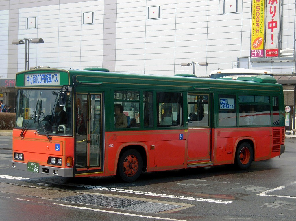 Yamako bus Hino Rainbow HR(KK-HR1JKEE),Yamagata City 100yen Loop bus